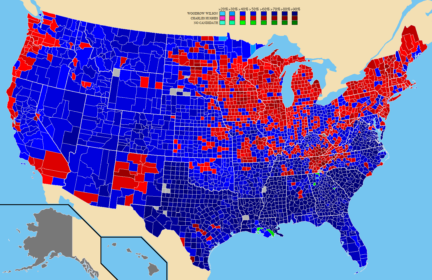 Map showing the results by county of the 1916 United States presidential election specifically identifying the percentage received by the winning candidate in each county. Counties with no information are in grey.